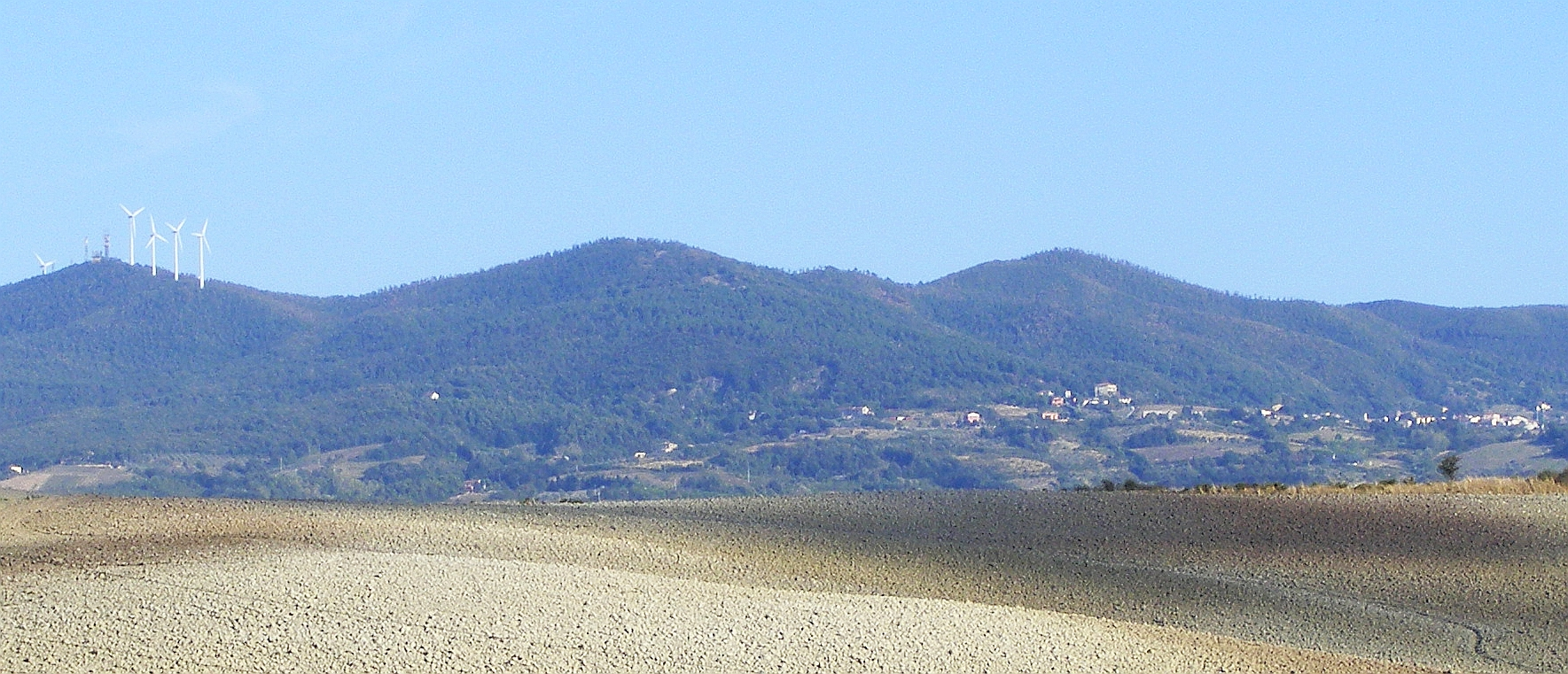 Castellina Marittima (PI, Italy): panorama from Santa Luce lake